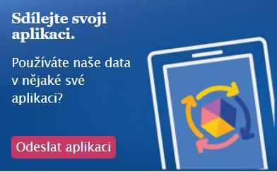 Screenshot from Open Data Portal